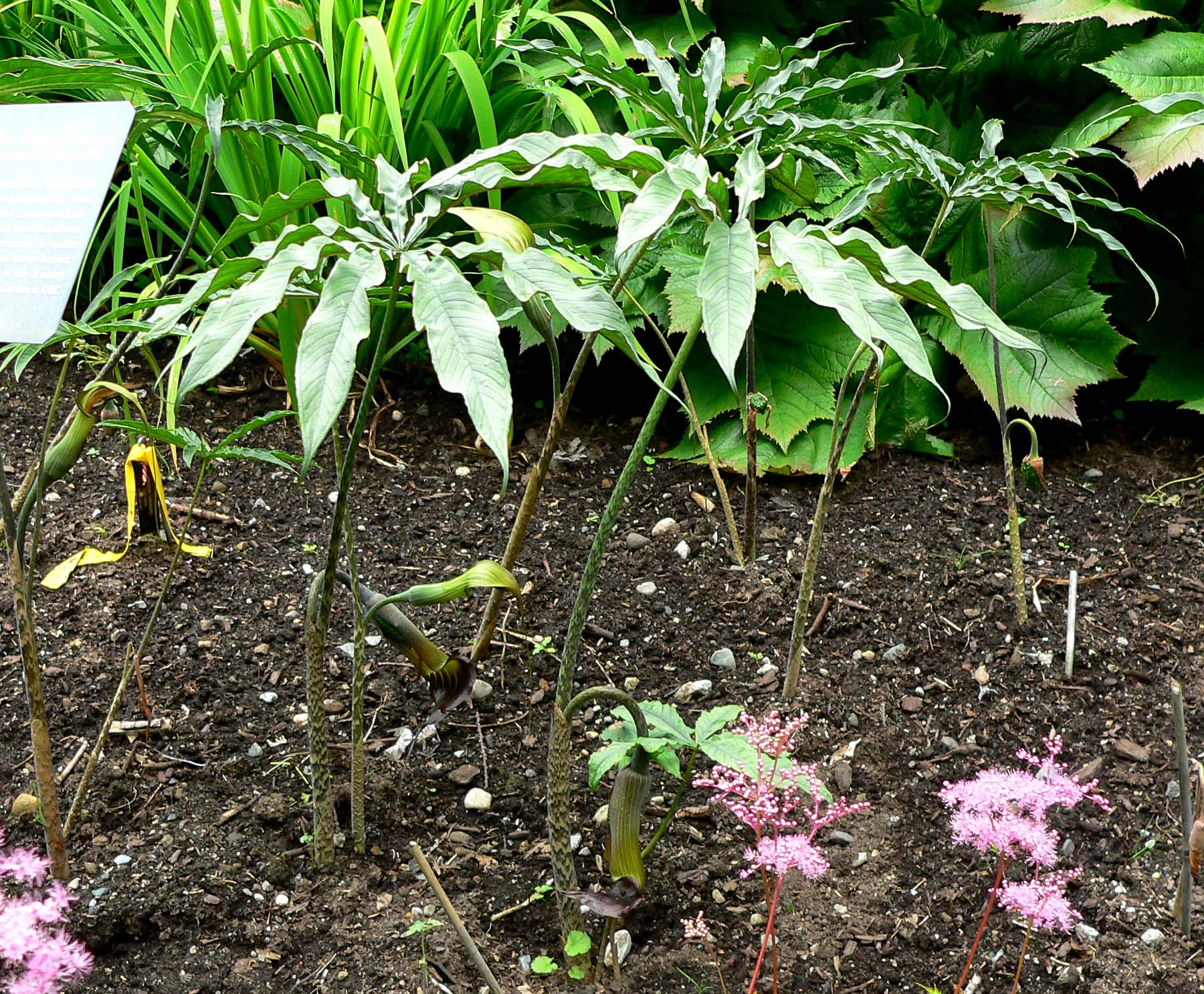 Photo of Arisaema_consanguineum at the UBC Botanical Garden in Vancouver